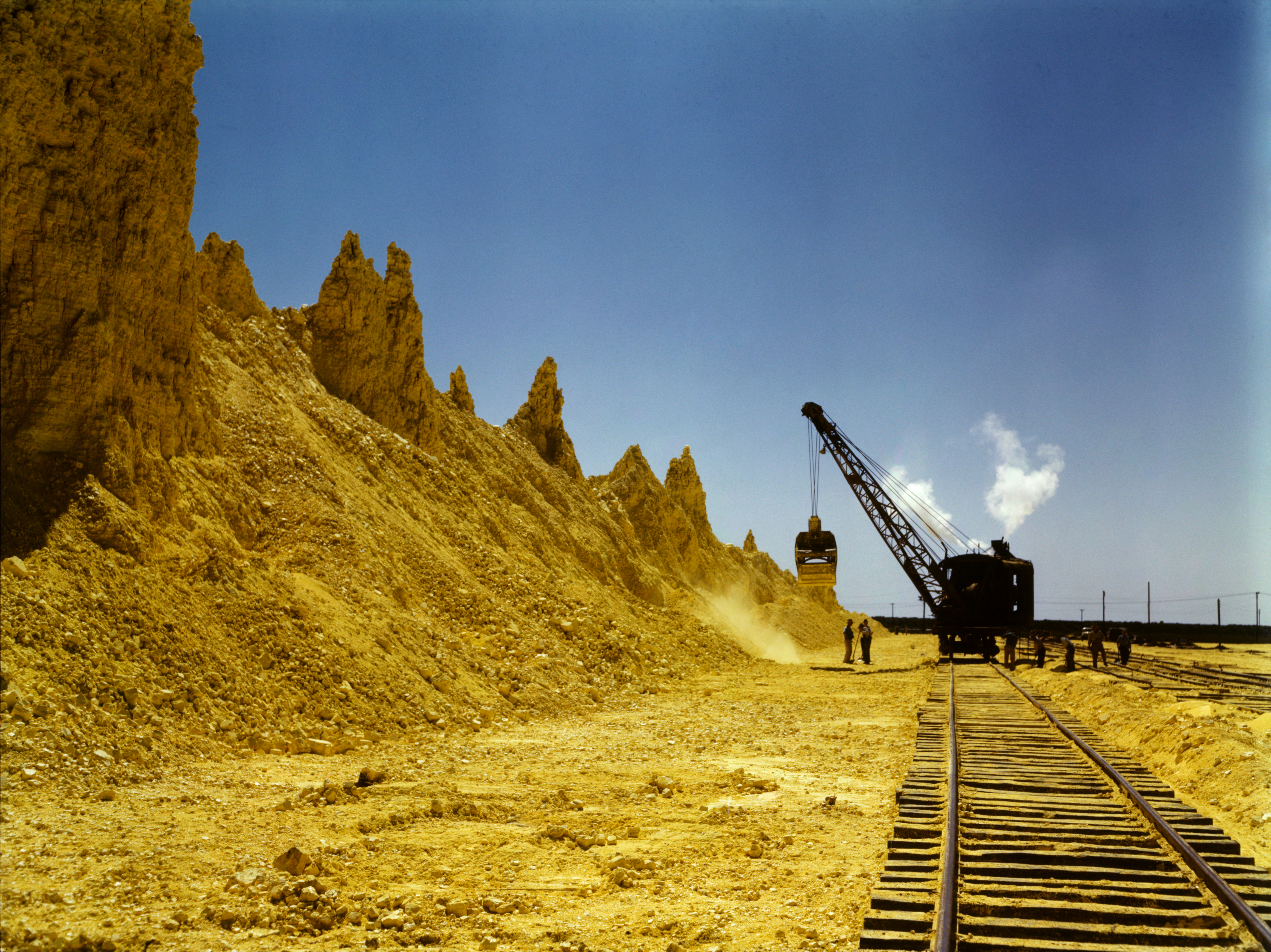 Title: Nearly exhausted sulphur vat from which railroad cars are loaded, Freeport Sulphur Co., Hoskins Mound, Texas